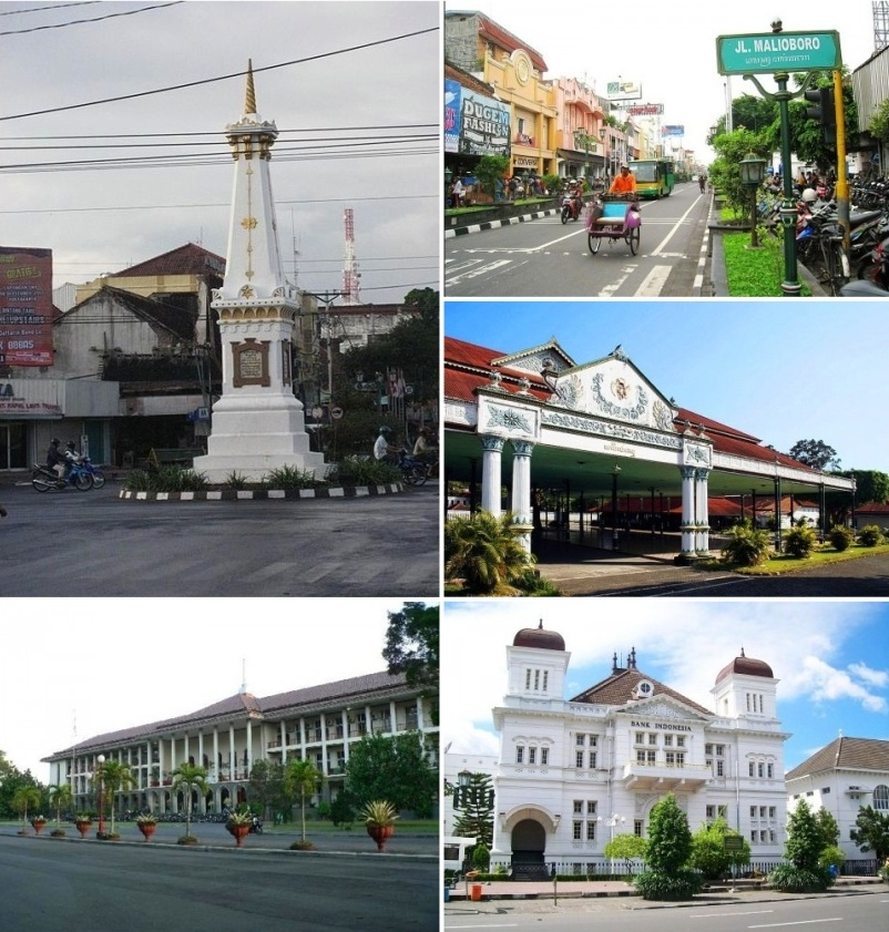 View of some important place in Yogyakarta